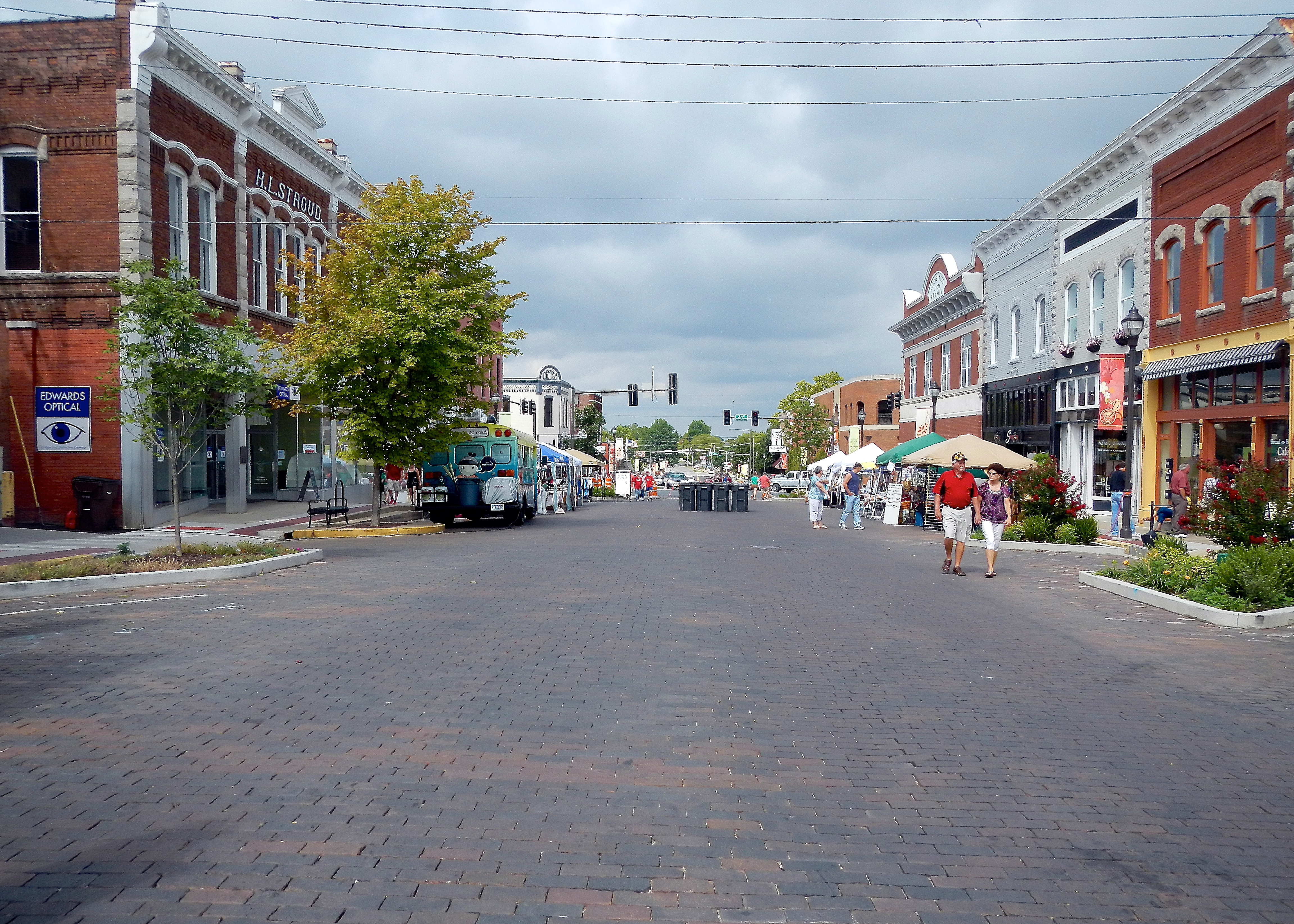 From flickr: Scenes from the 2012 Frisco Festival in downtown Rogers, AR.